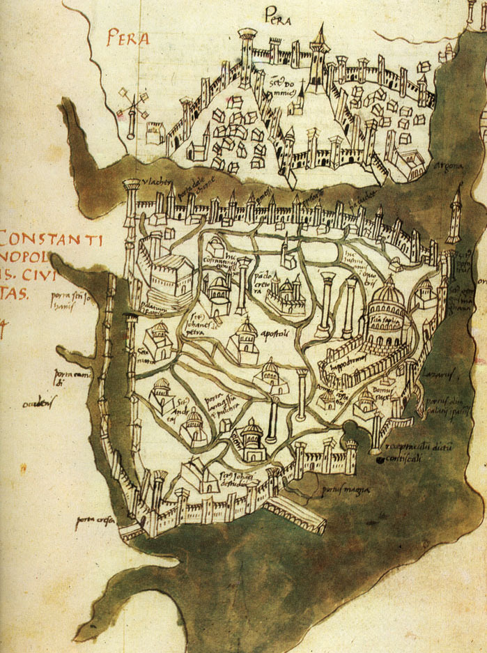 Cristoforo Buondelmonti, Liber Insularum Archipelagi (1420)